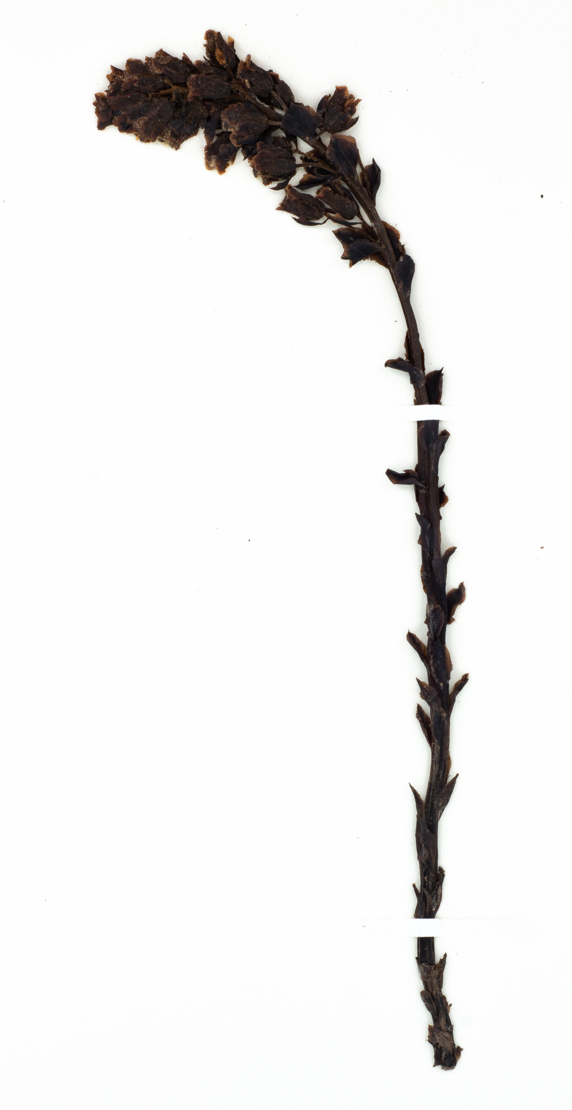 Pityopus californicus (Eastw.) H.F. Copel (Ericaceae) collected by Frederica Bowcutt on 1989-07-09, United States, California, Mendocino County, Mendocino County: E. of Anderson Cliffs along Lost Coast Trail. About 70 air miles S of Eureka ; 308 meters, 1010ft ; in Tanoak forest ; associated with Polystichum munitum, Vaccinium ovatum. W-facing. 60 deg. slope; determined by Dr. Rudolf W. Becking on 5 Jun 2001